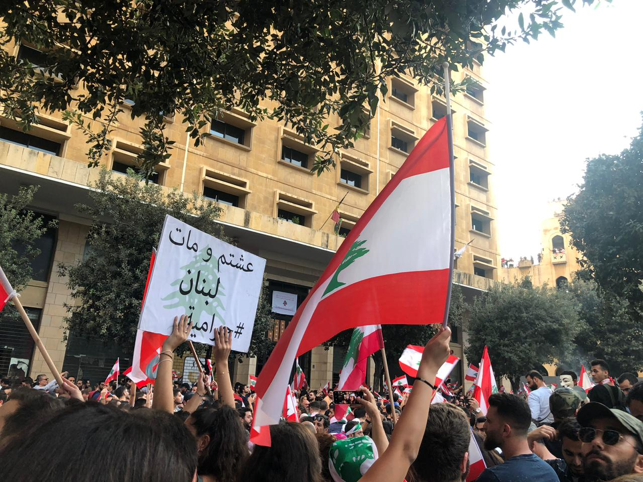 Beirut protests 2019